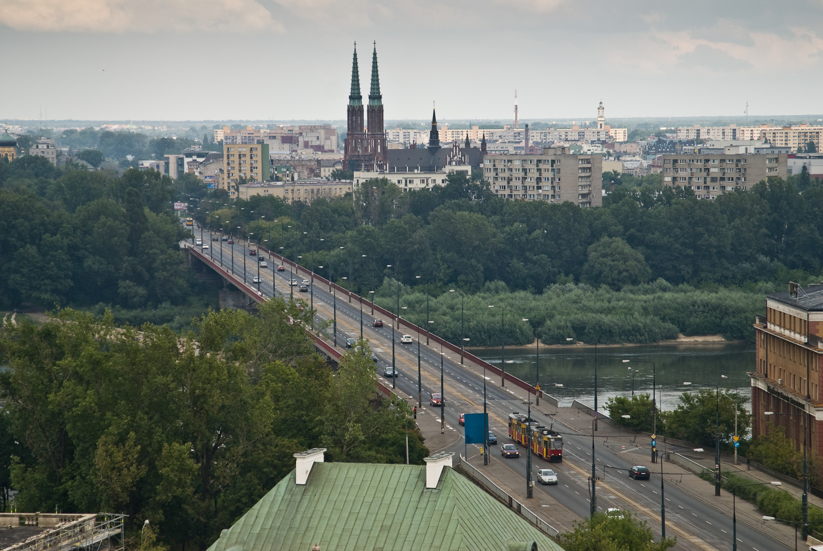 Śląsko-Dąbrowski Bridge in Warsaw, Poland